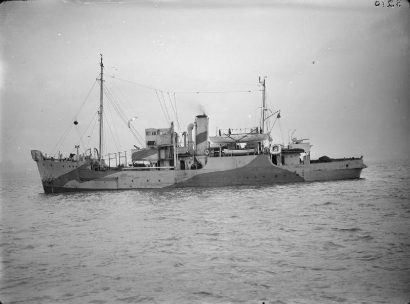 HMS Ringdove. Minelayer of the Linnet class. Stationary, coastal waters.